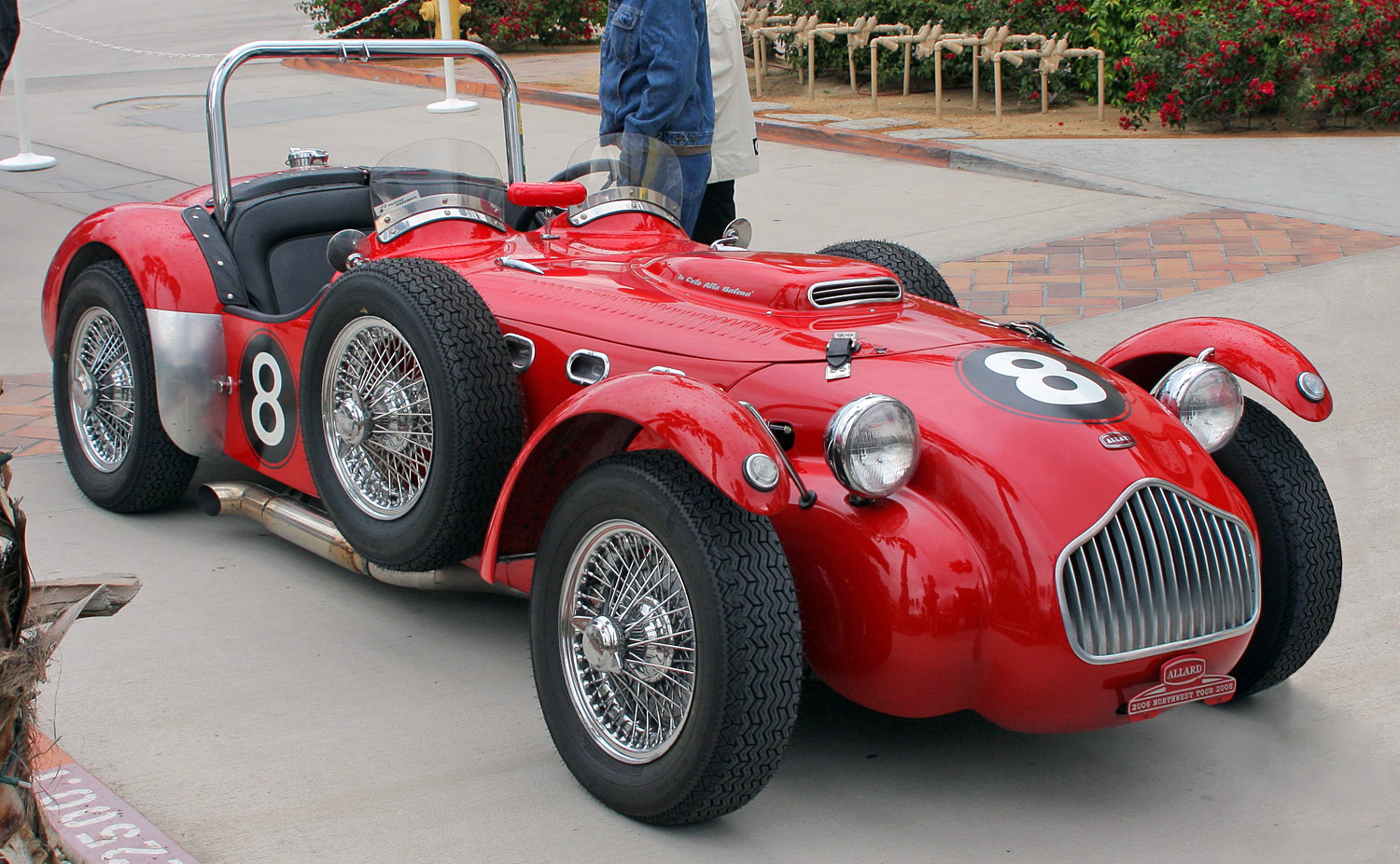 1953 Allard J2X at the third annual Desert Classic Concours d'Elegance, Feb 28 2010